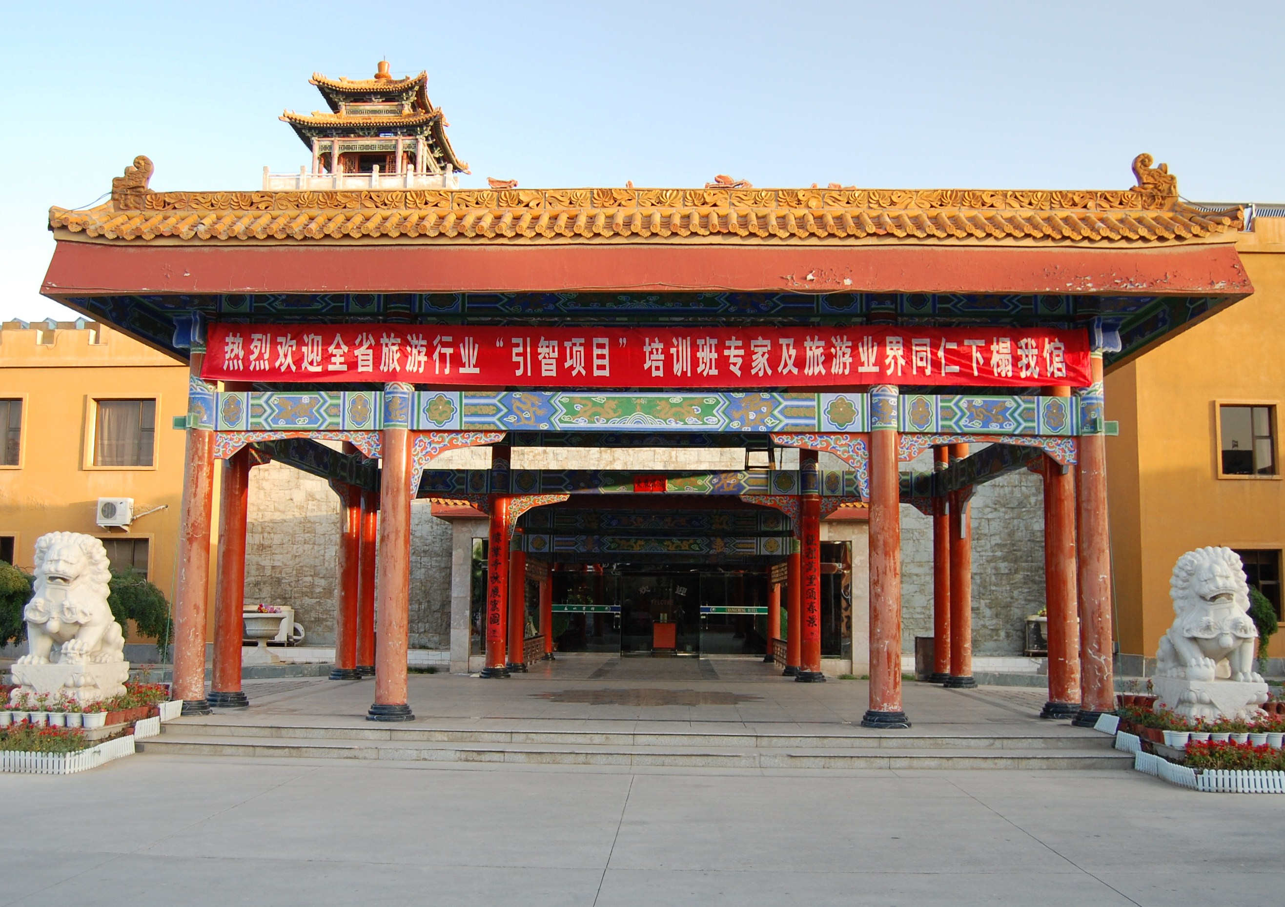 Chang Cheng Hotel in Jiayuguan (3 stars)